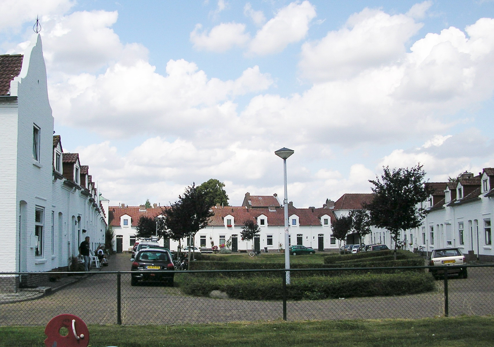 Schepenenplein, Maastricht, the Netherlands